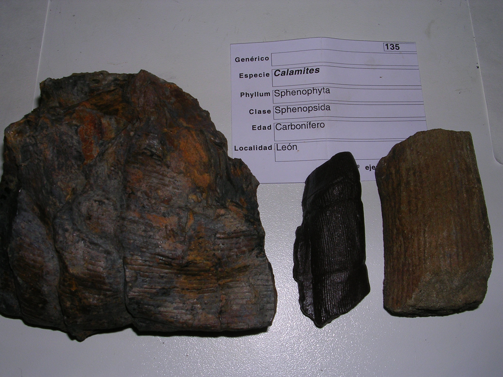 Calamites sp. fossil in a laboratory of practices of the Faculty of Sciences of the University of Corunna.